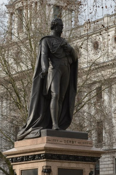 Earl Derby being photobombed by Canning